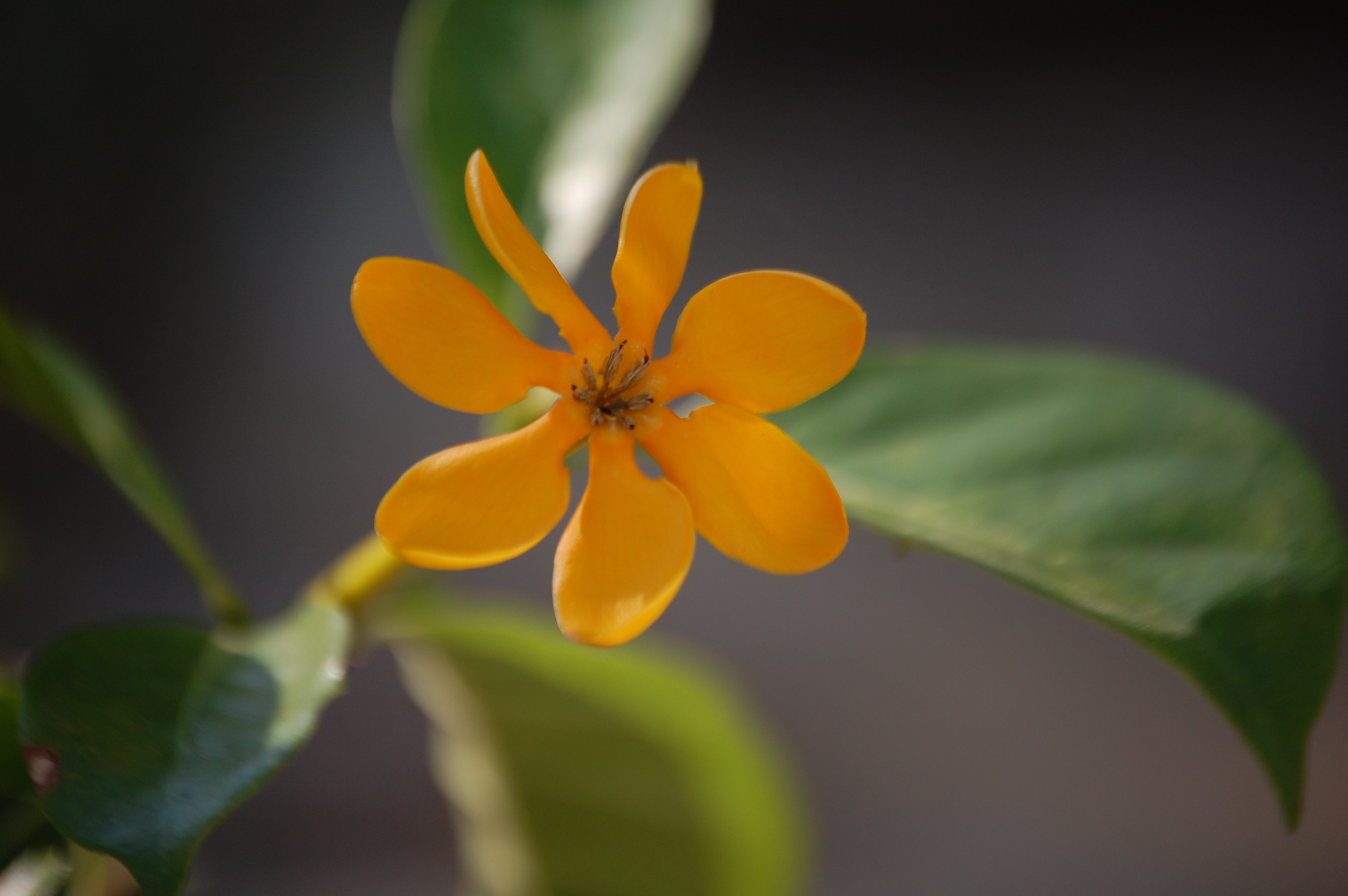 Gardenia sootepensis